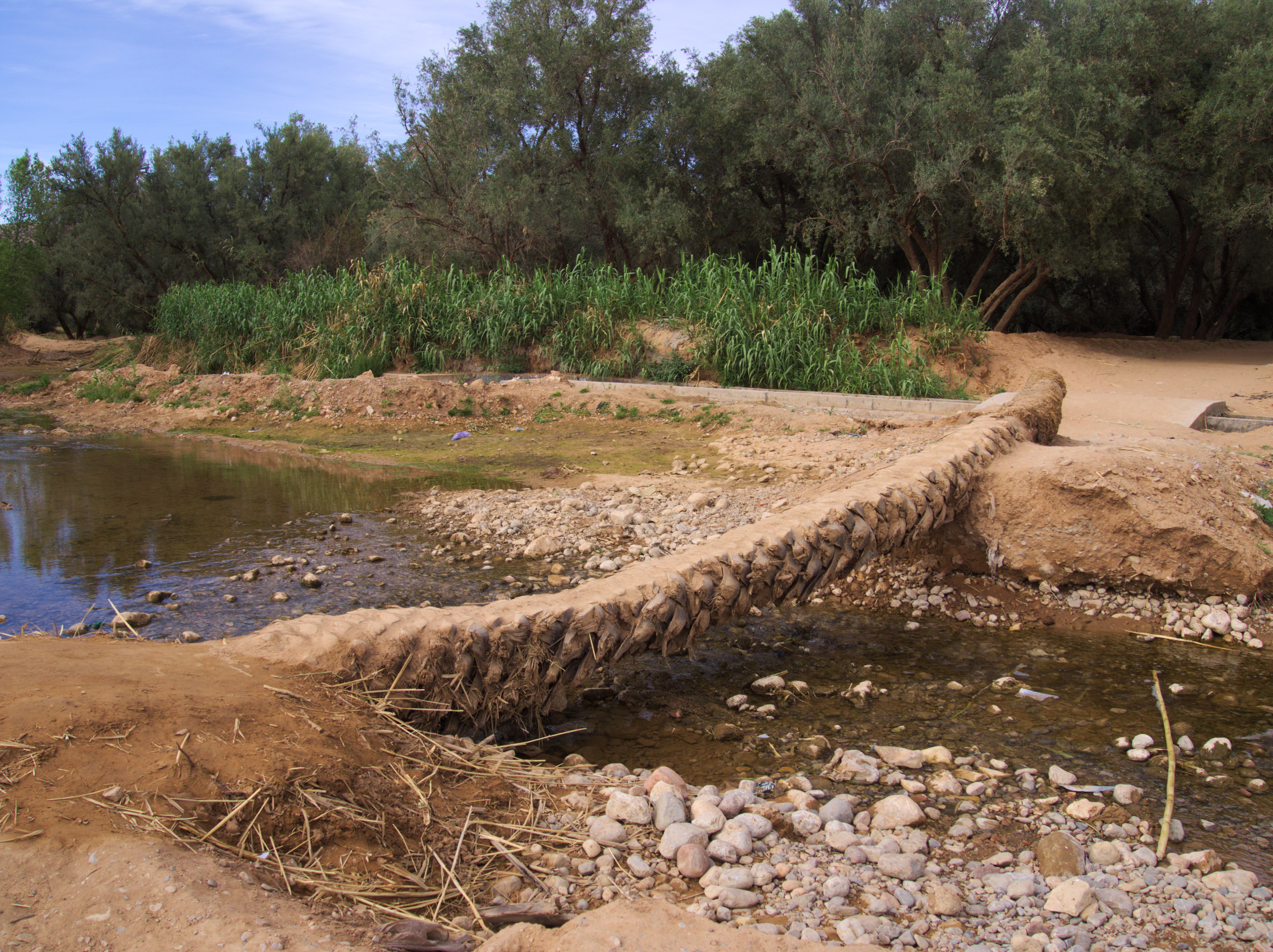 An old palm tree used as a bridge in the Todgha Oasis, close to Tinghir City, Morocco This is an image with the theme "Africa on the Move or Transport" from: Morocco